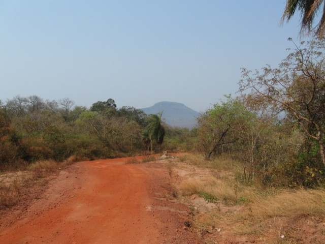 Road in Santa Cruz la Vieja historical park with Cero Turubo in the background.